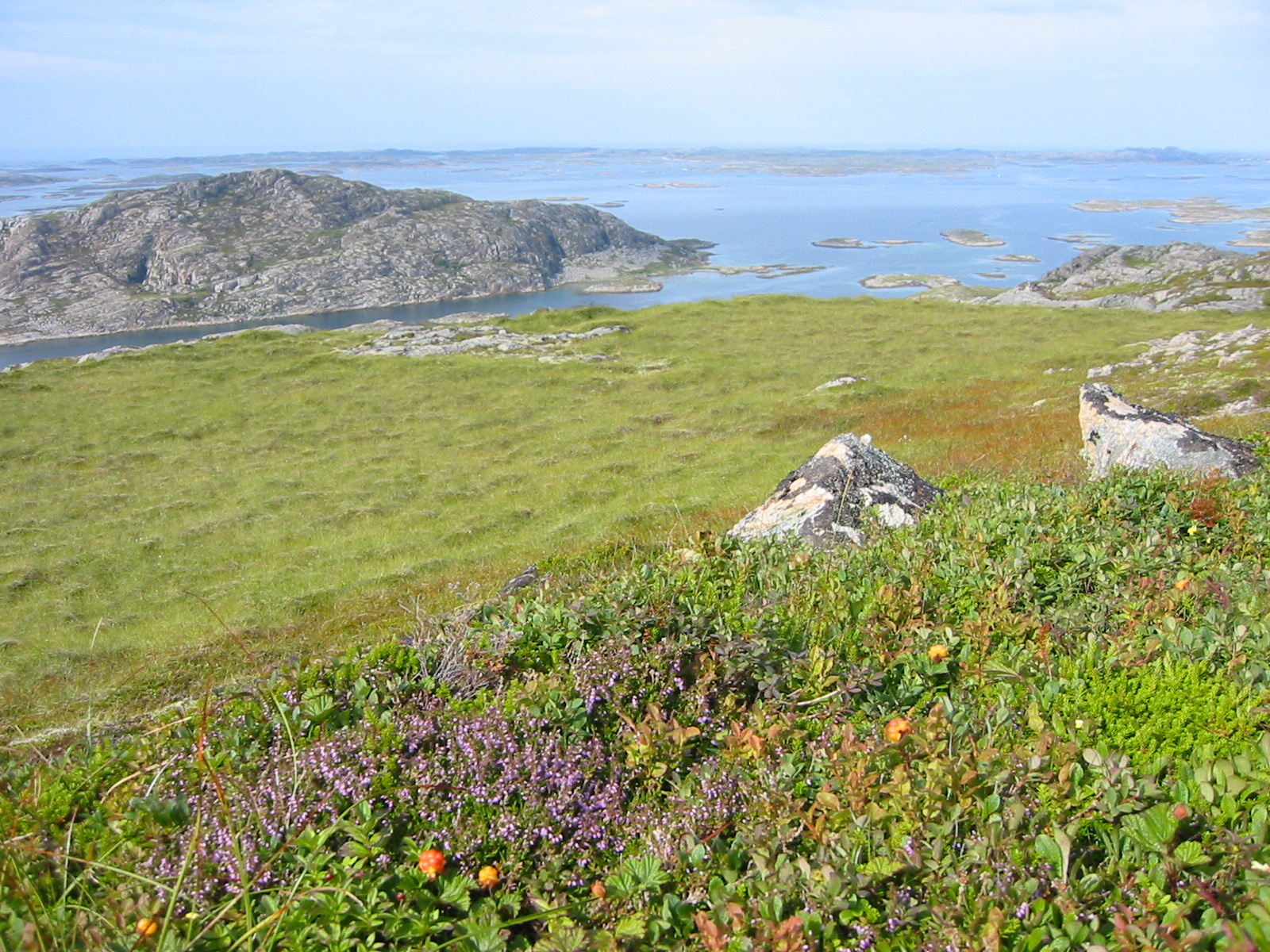 In the foreground cloudberries and Calluna (Calluna vulgaris) on Vikna, Norway. View from near Valøytinden (158 m above sea), Yttervikna, the outermost of the three large islands in the Vikna archipelago (there are 6,000 islands in total). This is as far west into the Norwegian Sea you can get by car in this part of Norway. View towards northwest. July 27 2006. Picture taken by myself. Orcaborealis. No: Bildet er tatt fra nær toppen av Valøytinden på Yttervikna, Vikna kommune i Nord-Trøndelag. Dette er så langt vest i Norskehavet som man kan komme med bil i denne delen av Norge. Multe og Røsslyng vises i forgrunnen. Bildet tatt 27. juli 2006.